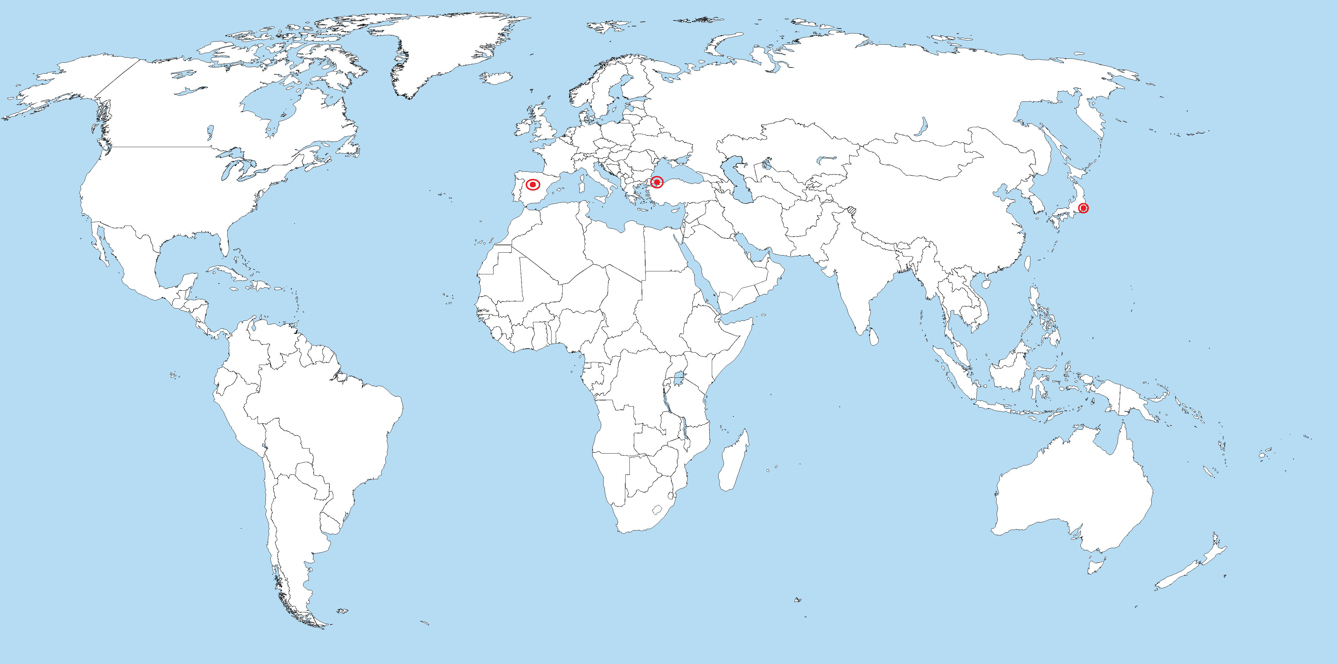 Olympics2020candidatecountries